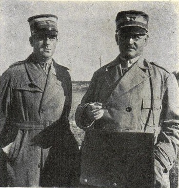 Chief of General Staff Major General Bo Boustedt (right) and the head of the operations department, Lieutenant Colonel Axel Rappe (left) during the army tests in 1932.